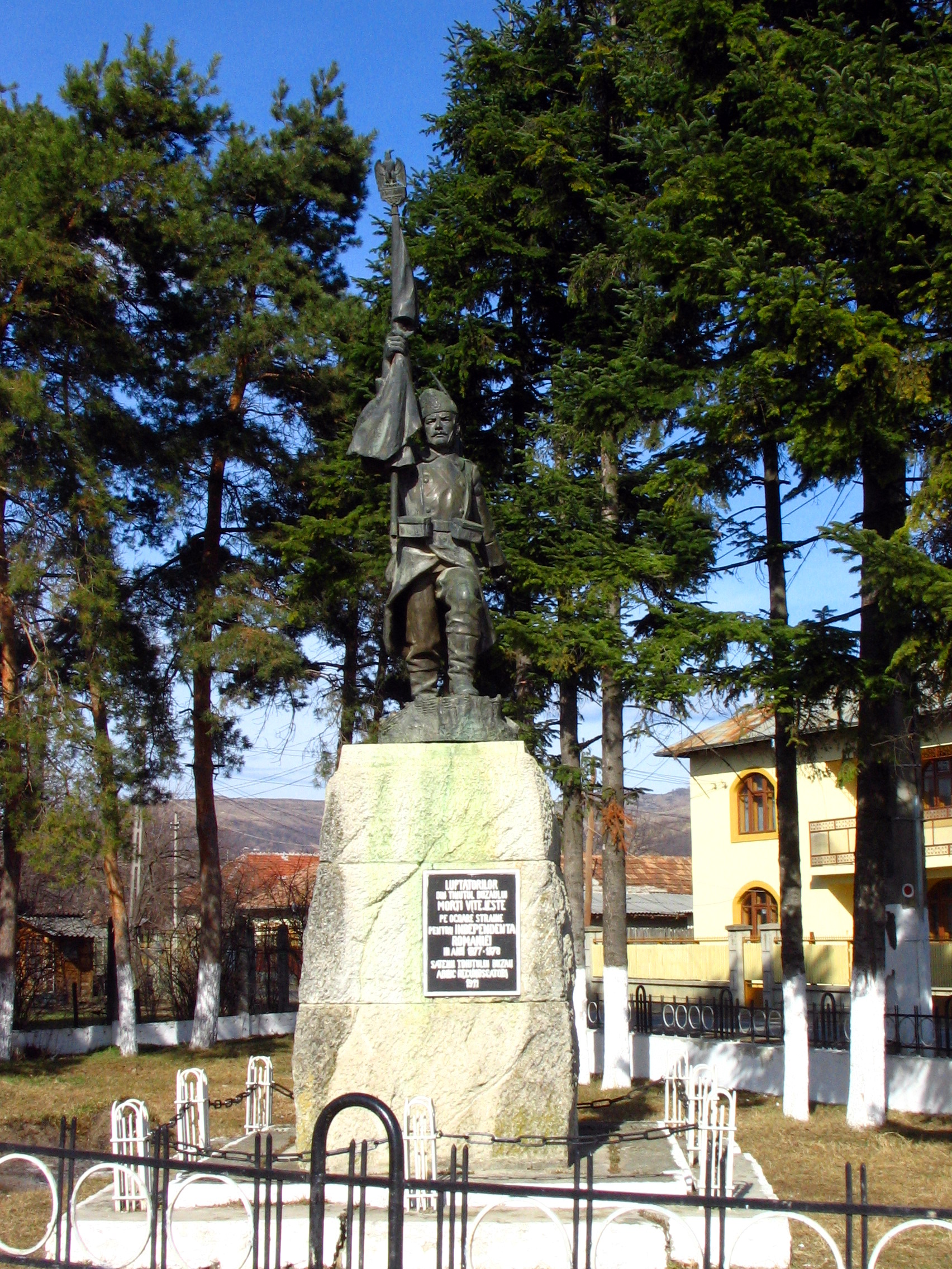 Romanian War of Independence monument in Cislău, Romania. According to [1], sculptor is Frederic Storck, dead 1942.